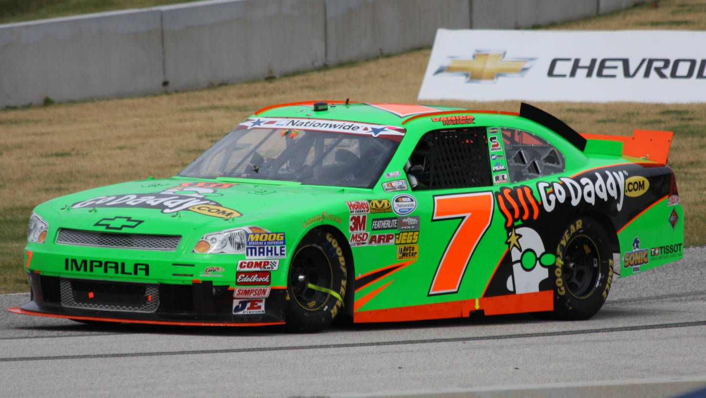 Danica Patrick NASCAR Nationwide Series car at Road America at the 2012 Sargento 200.